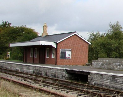 Cropped image of Blaenavon (High Level) railway station